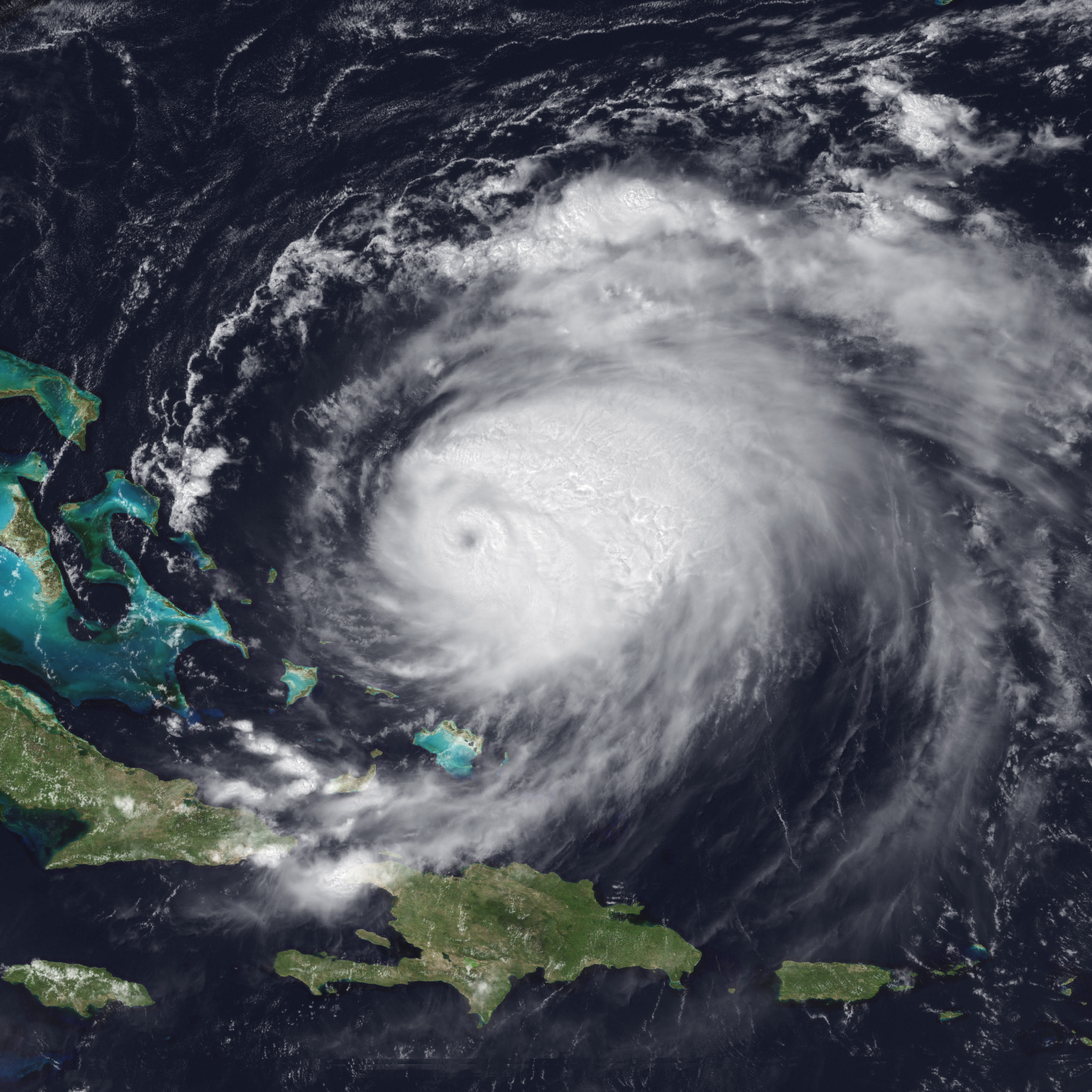 Hurricane Bonnie near peak intensity east of the Bahamas on August 23, 1998